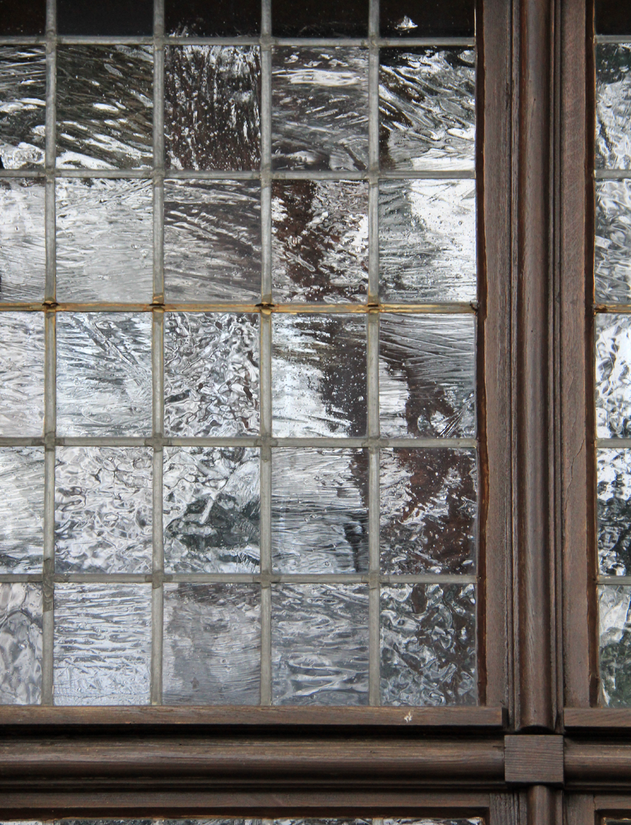 Cathedral Glass Window in the Waldfriedhof Dahlem (Berlin) chapel